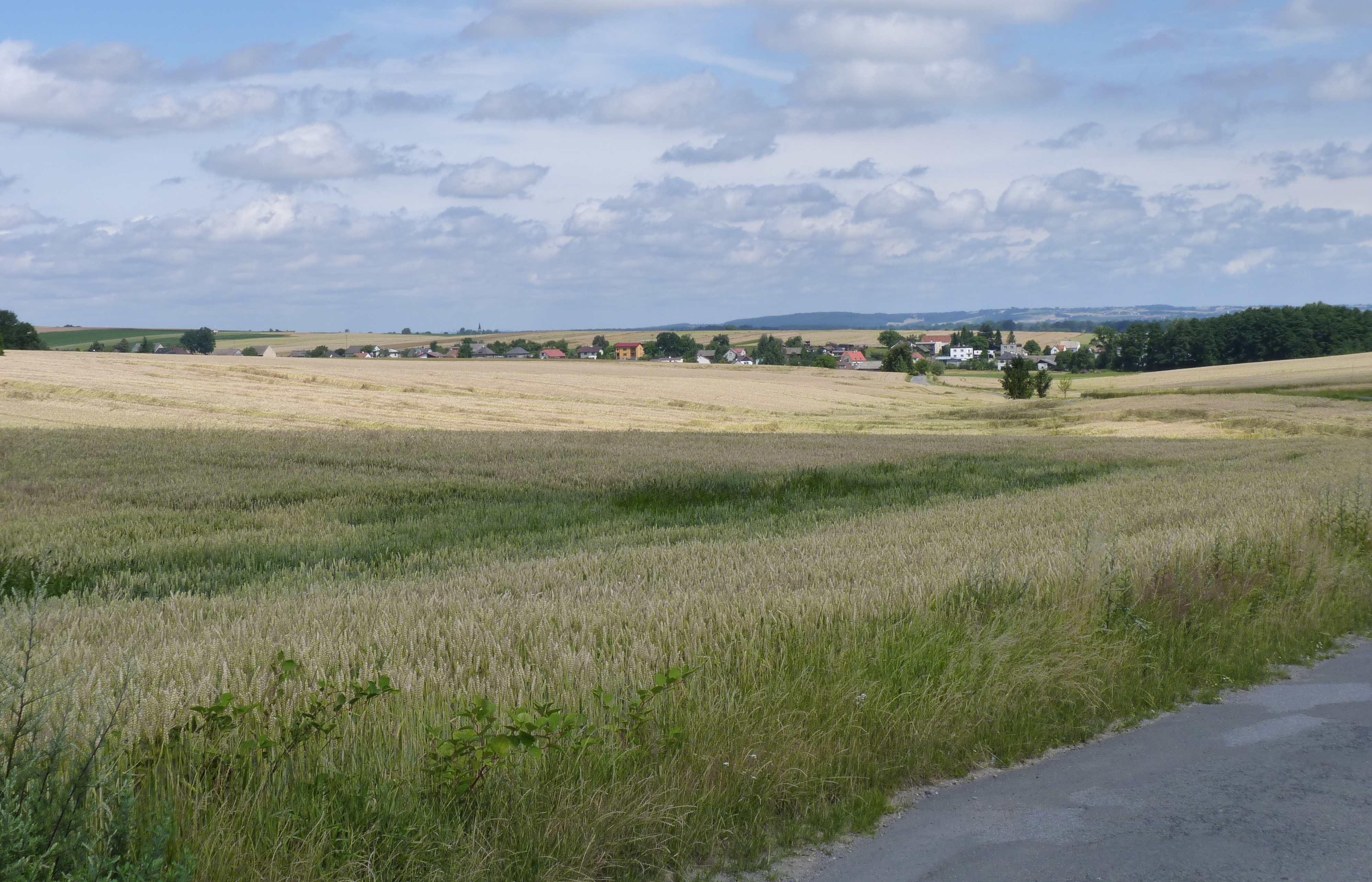 Hať. Opava District, Moravian-Silesian Region, Czech Republic